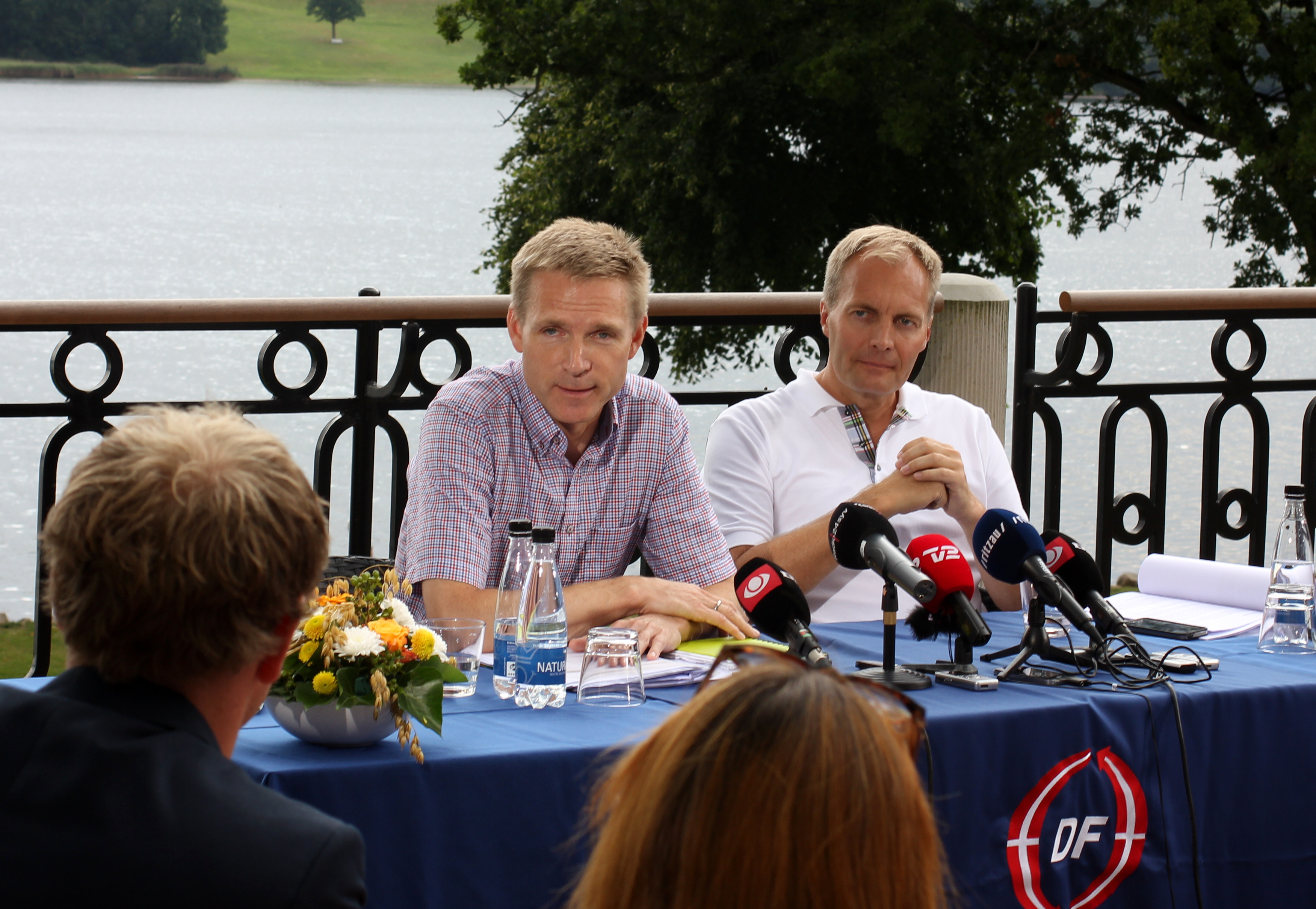 Danish politicians, Kristian Thulesen Dahl and Peter Skaarup at a pressconference. 2014Dansk: Partileder Kristian Thulesen Dahl og gruppeformand Peter Skaarup ved en pressekonference til Dansk Folkeparti's sommermøde 2014.